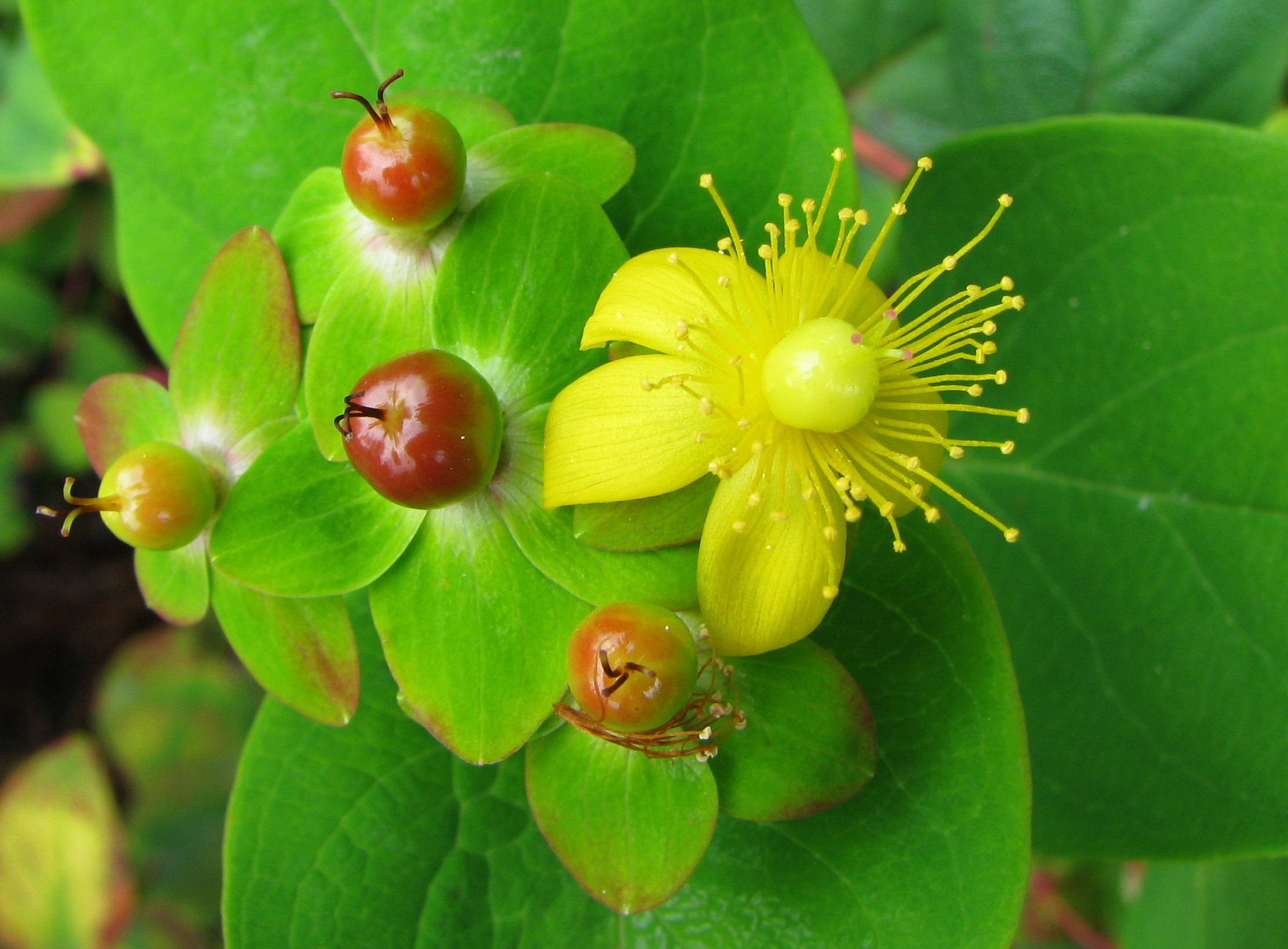 Sweet-amber Hypericum androsaemum flower and young fruits, plant cultivated in Wrocław University Botanical Garden, Poland.